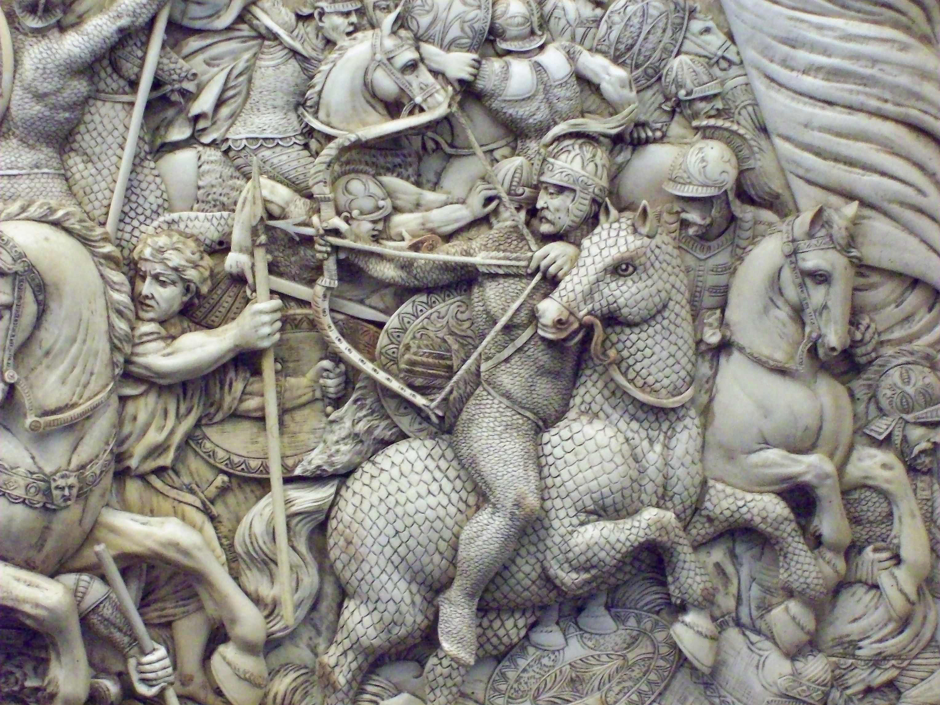 Detail: A Persian horse archer.